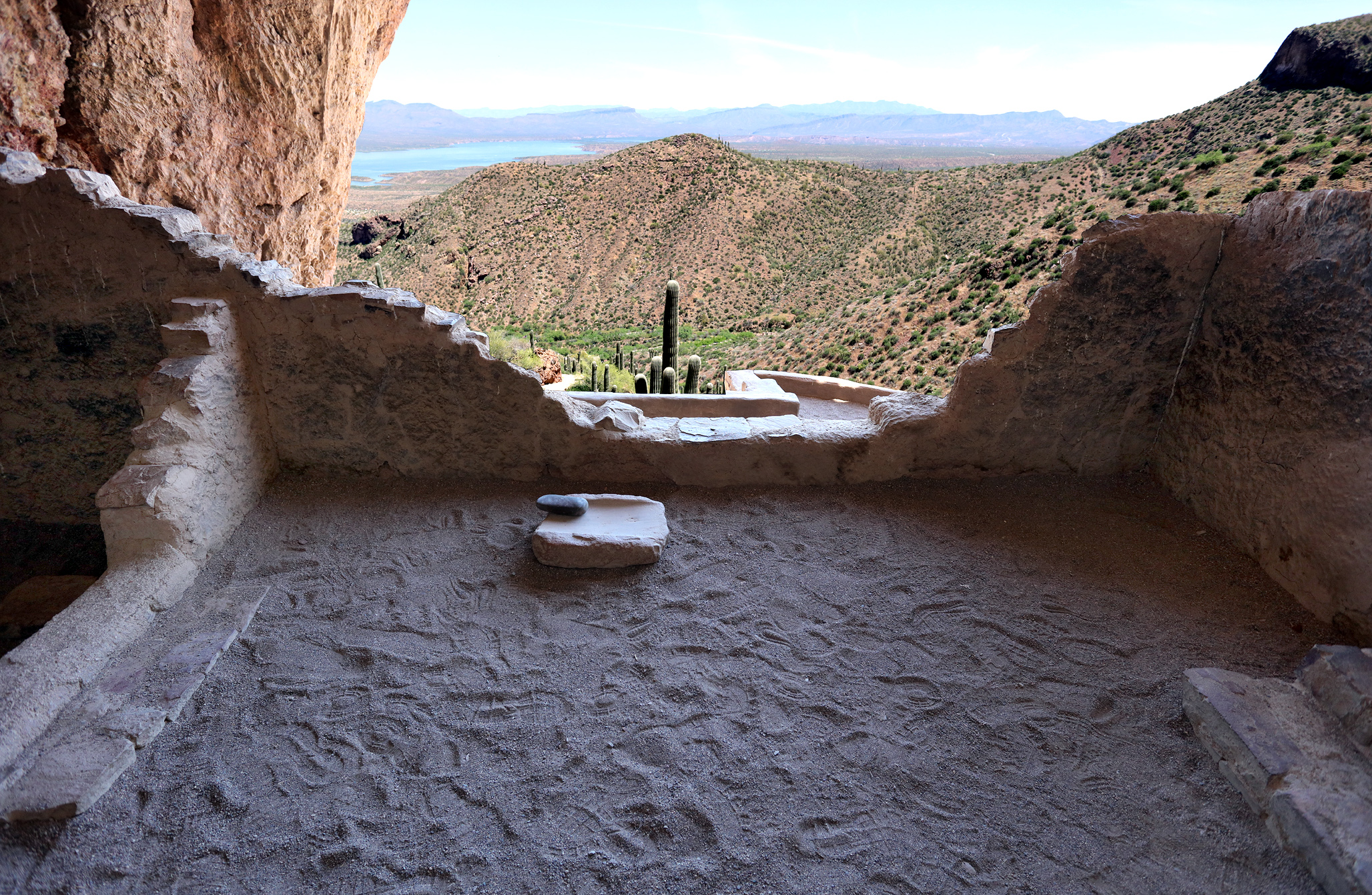 Tonto National Monument looking south April 2019